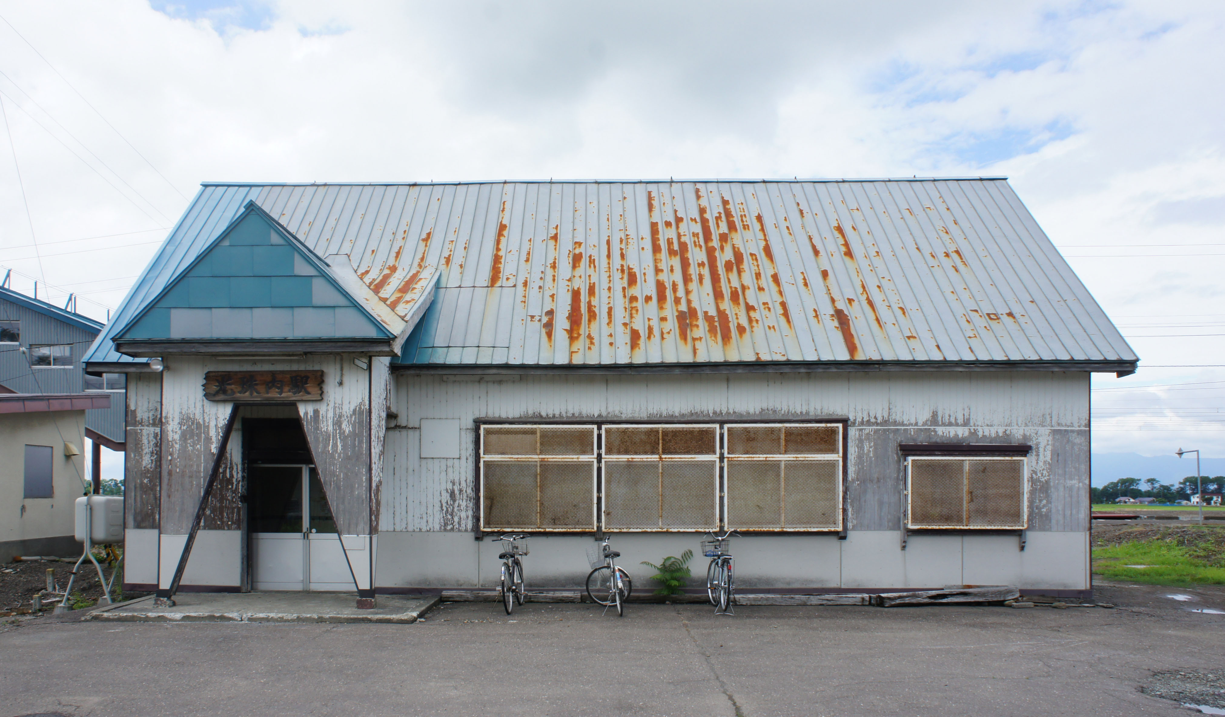 Station building of JR Hakodate-Main-Line Koshunai Station